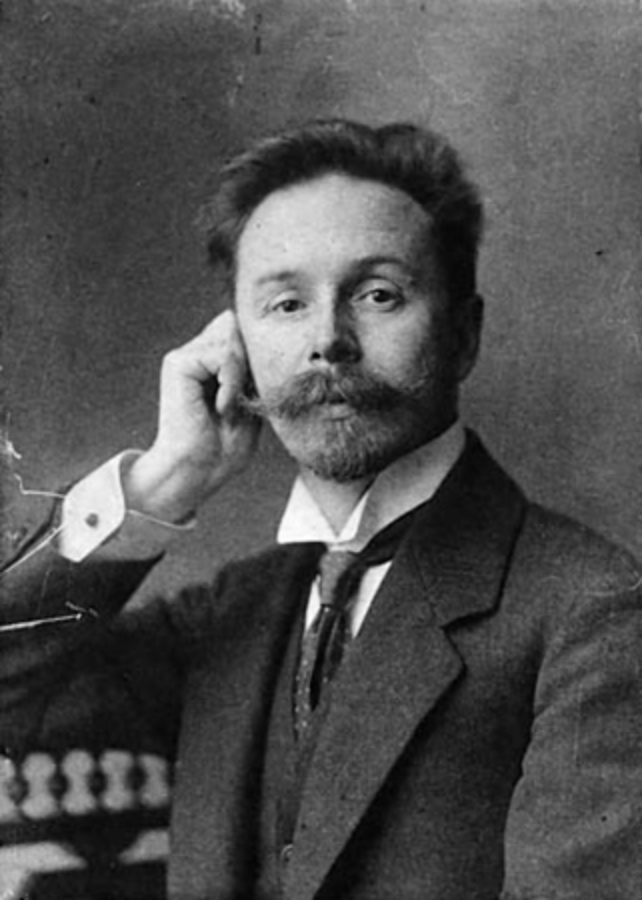 Skrjabin, Alexander Nikolajevitch. The great Russian composer and musician